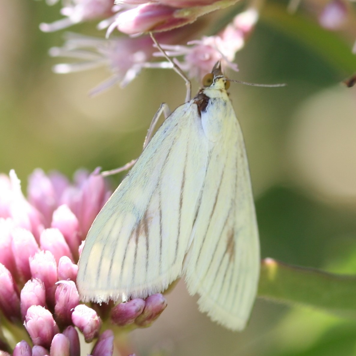 Sitochroa palealis 16 July 2006 IJmuiden, the Netherlands